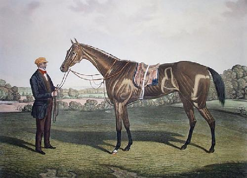 Blink Bonny. 1857 Epsom Derby winner. Coloured etching by Charles Hunt & Son.